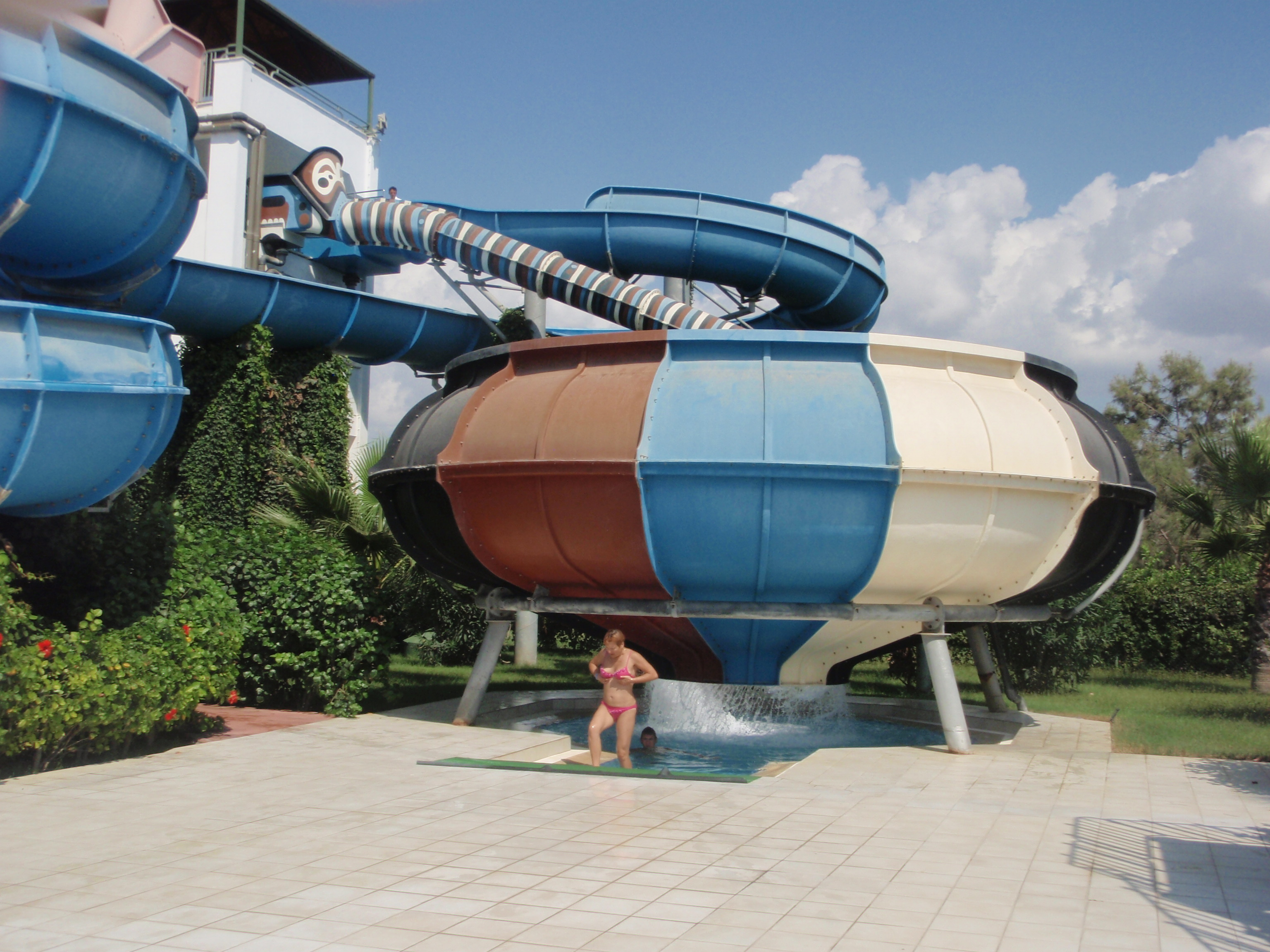 Special water slide. Turkey, Hotel Turan Prince World.